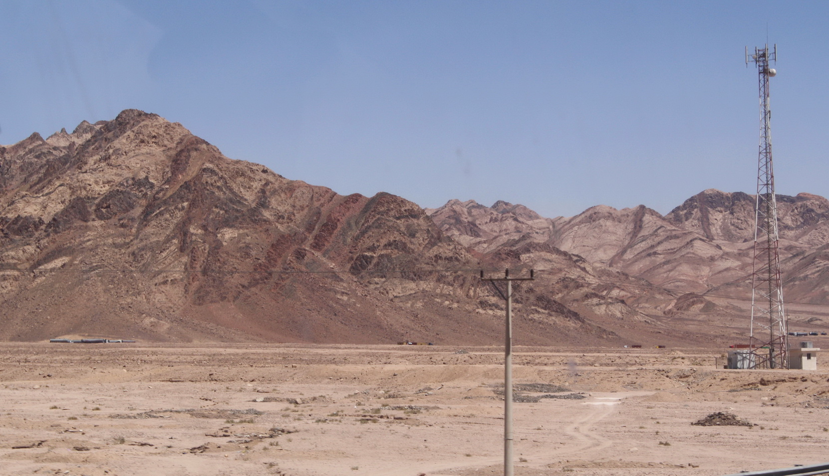 Aravah valley, from Aqaba to Amman, Jordan.